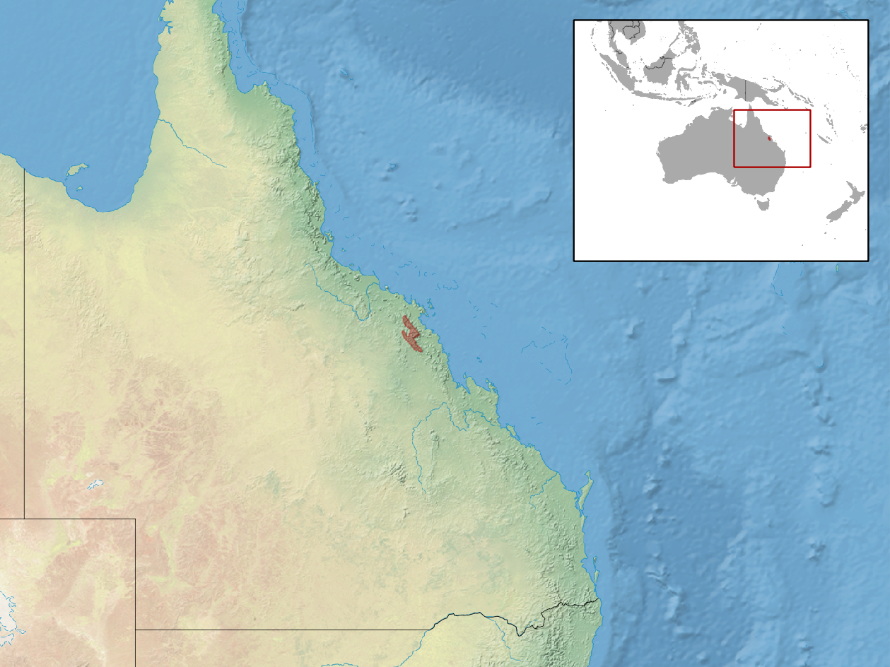 geographic distribution of Eulamprus luteilateralis